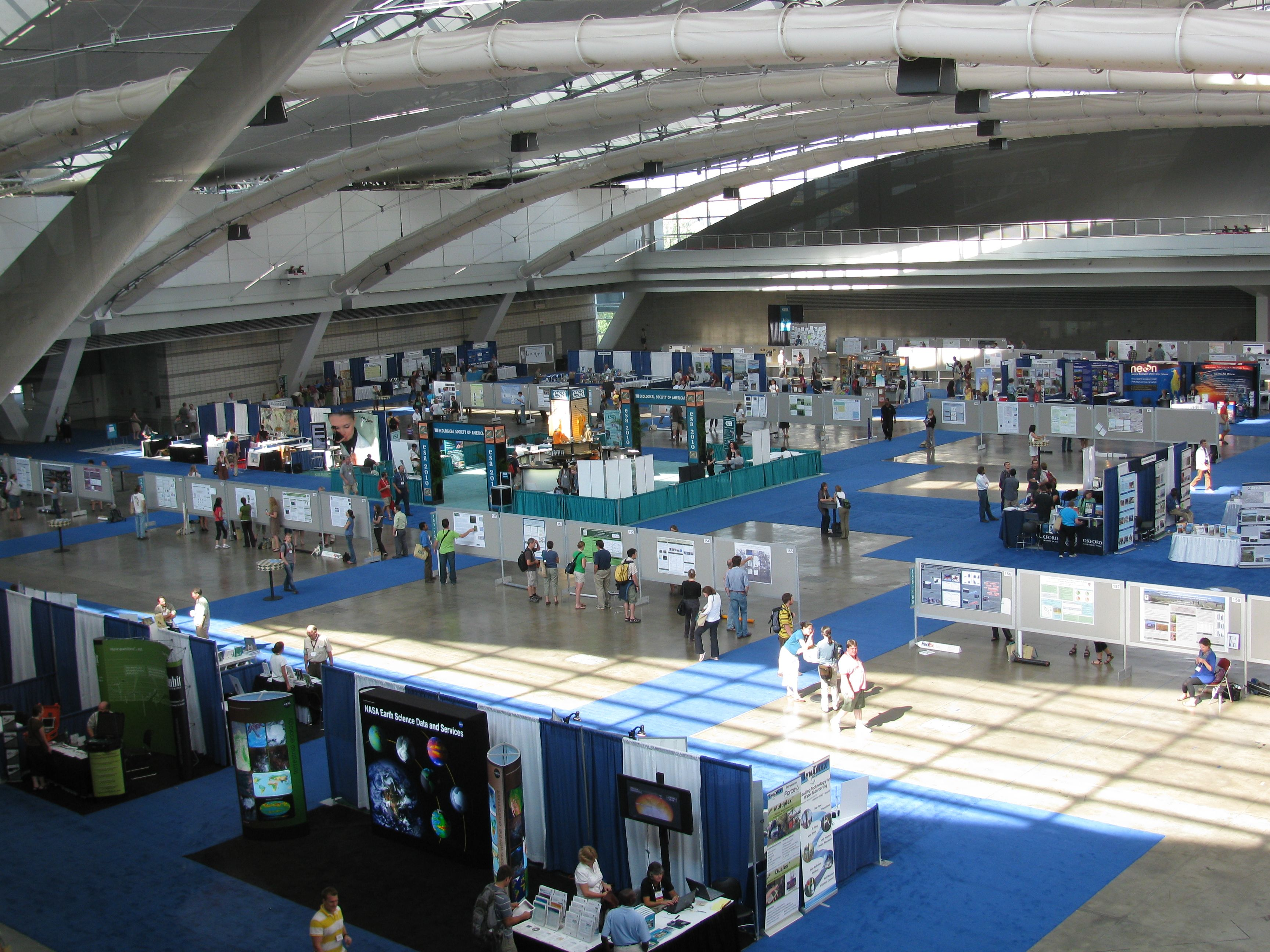 Ecological Society of America Annual Meeting at the David L. Lawrence Convention Center in Pittsburgh, Pennsylvania